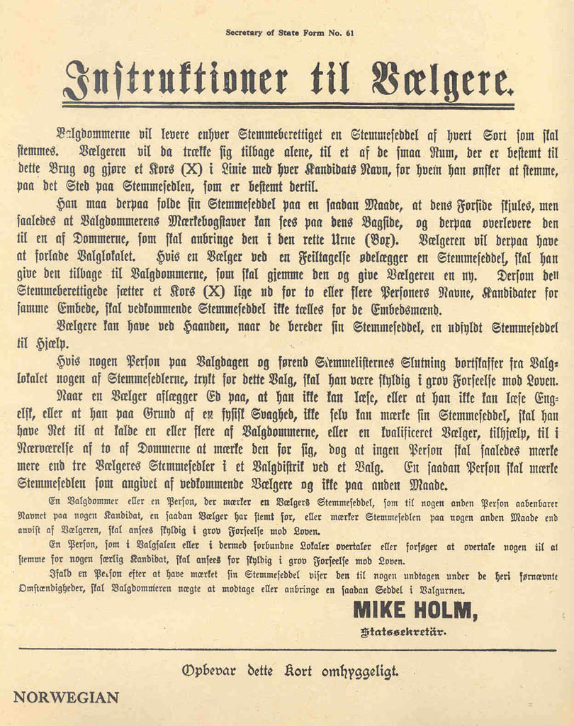 Voting instructions to recent immigrants from the Secretary of State for Minnesota Mike Holm, issued between 1920 - 1930. Featured on the Minnesota Historical Society's blog.